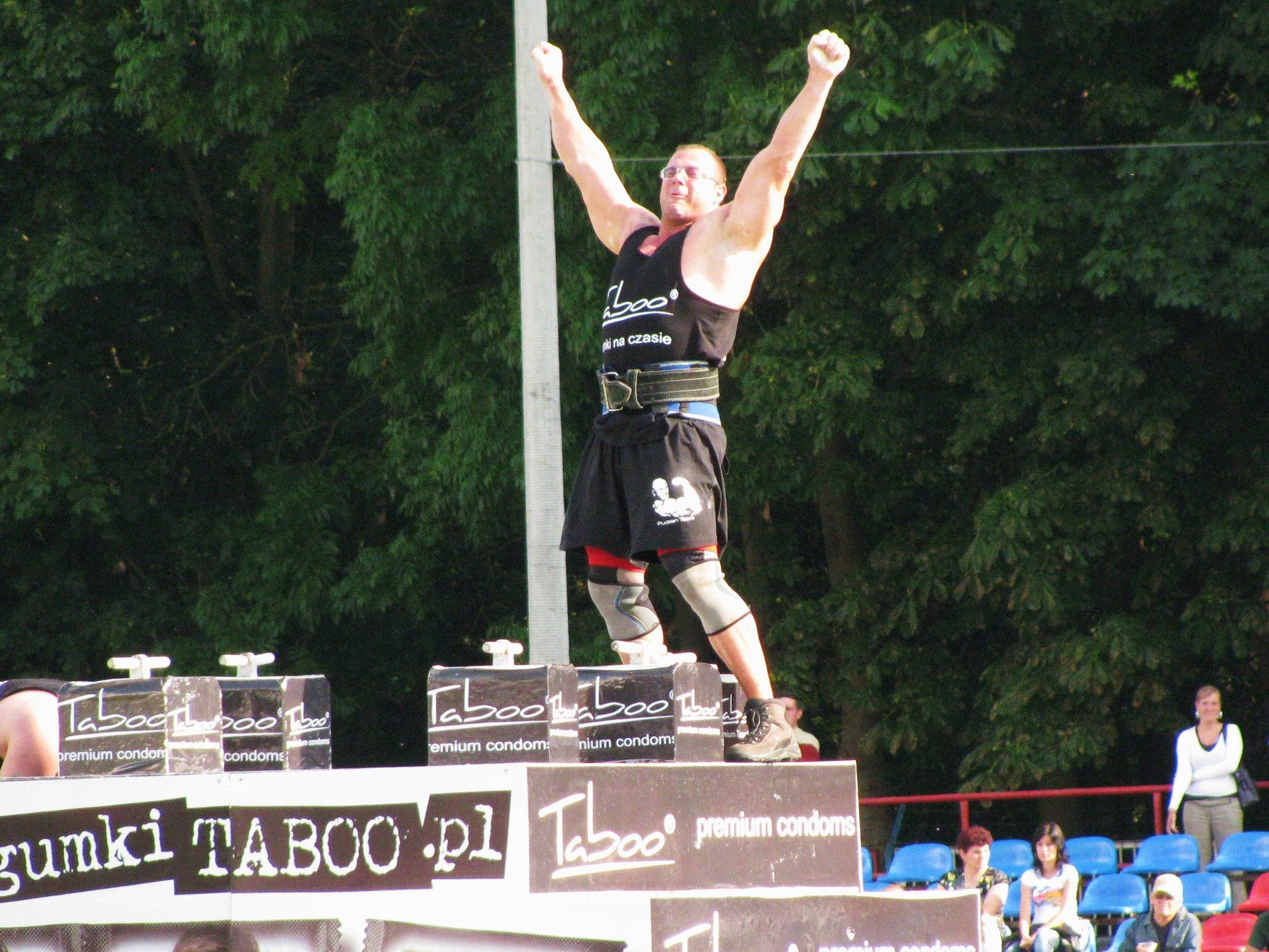 Florian Trimpl - a strength athlete from Germany